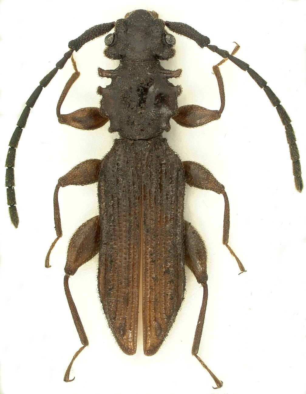 Dorsal habitus AutoMontage photo of male Brontoliota lawrencei.